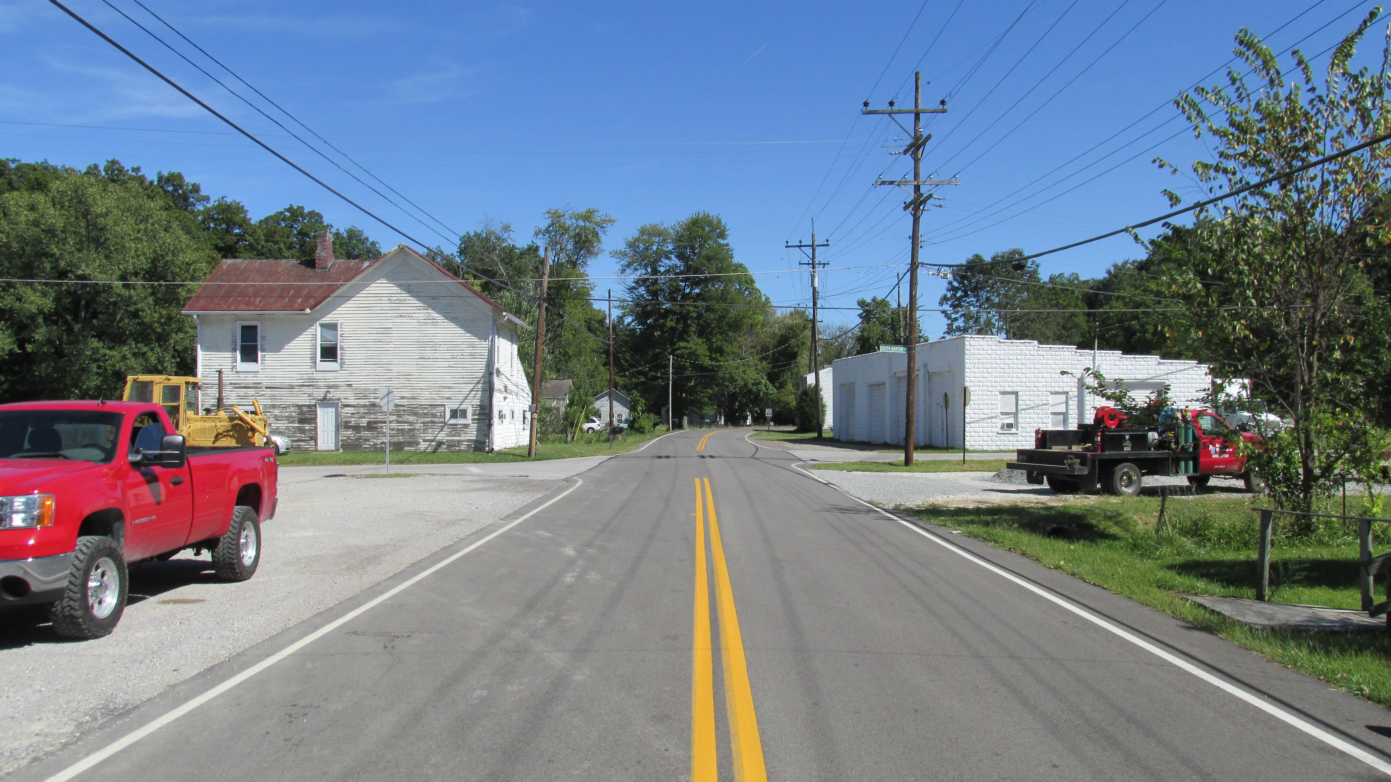 Looking east on Bantam Road in Bantam.